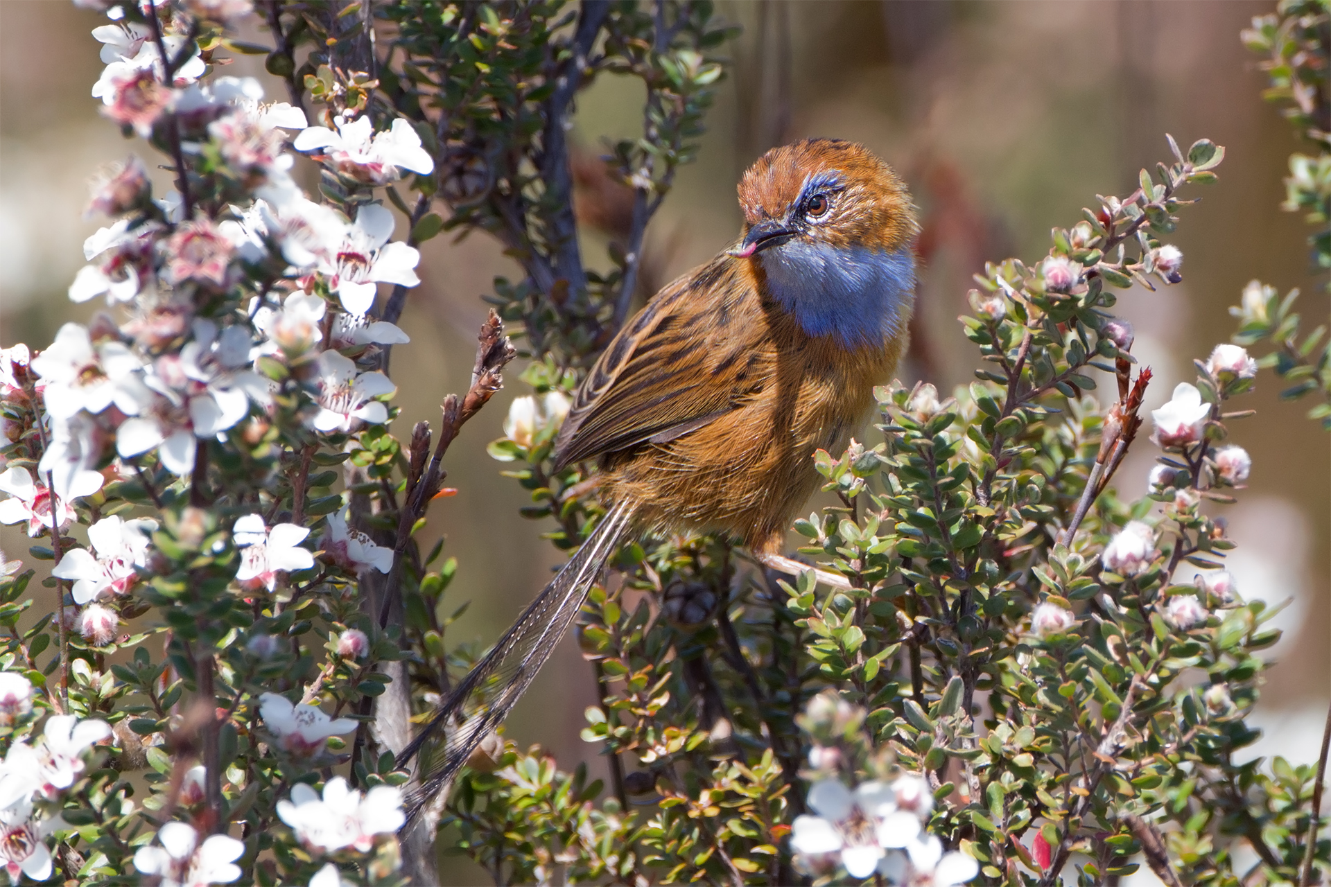 Southern Emu-wren (Stipiturus malachurus), Southwest National Park, Tasmania, Australia